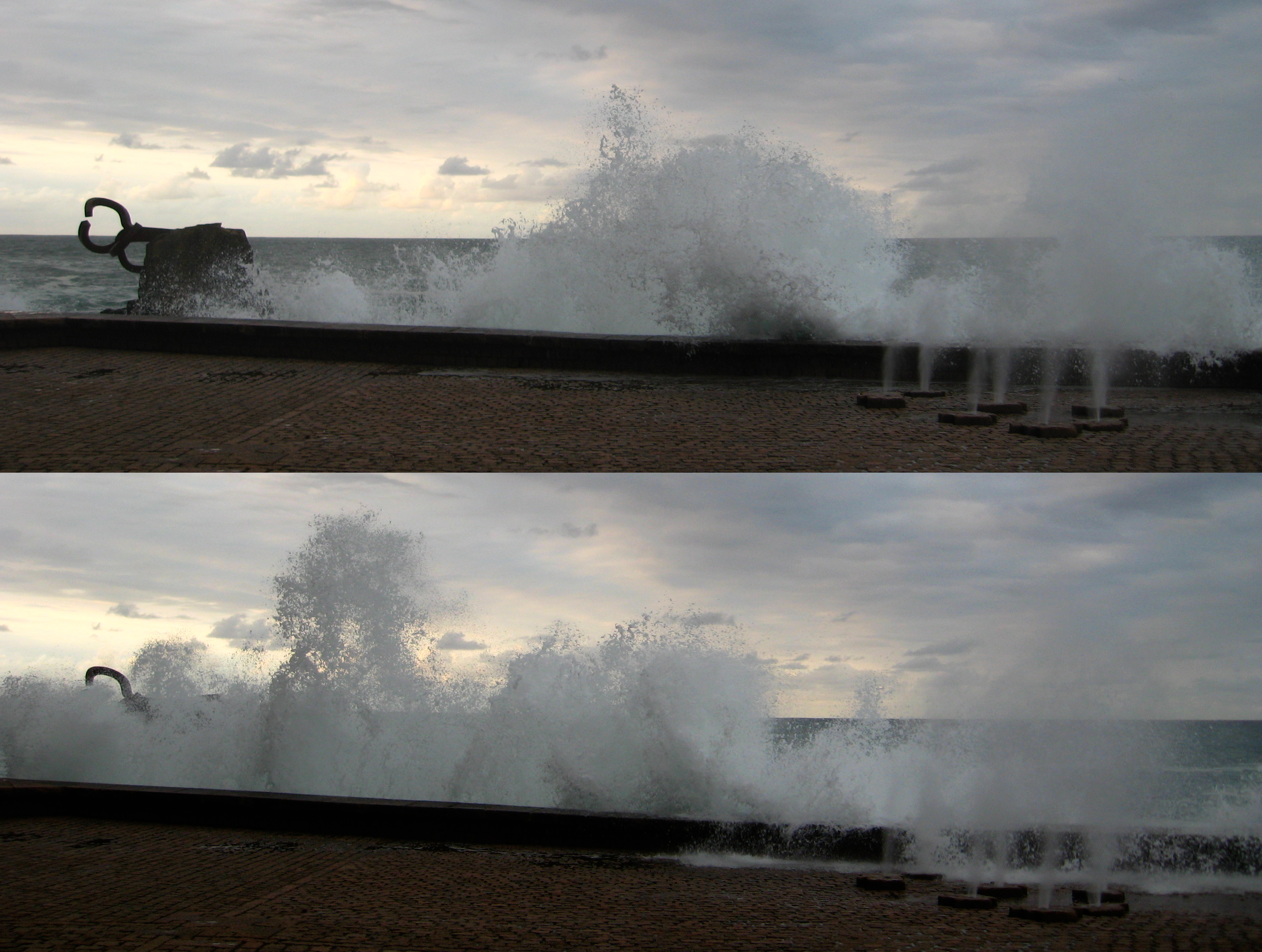 Splashing wave in Haizearen orrazia